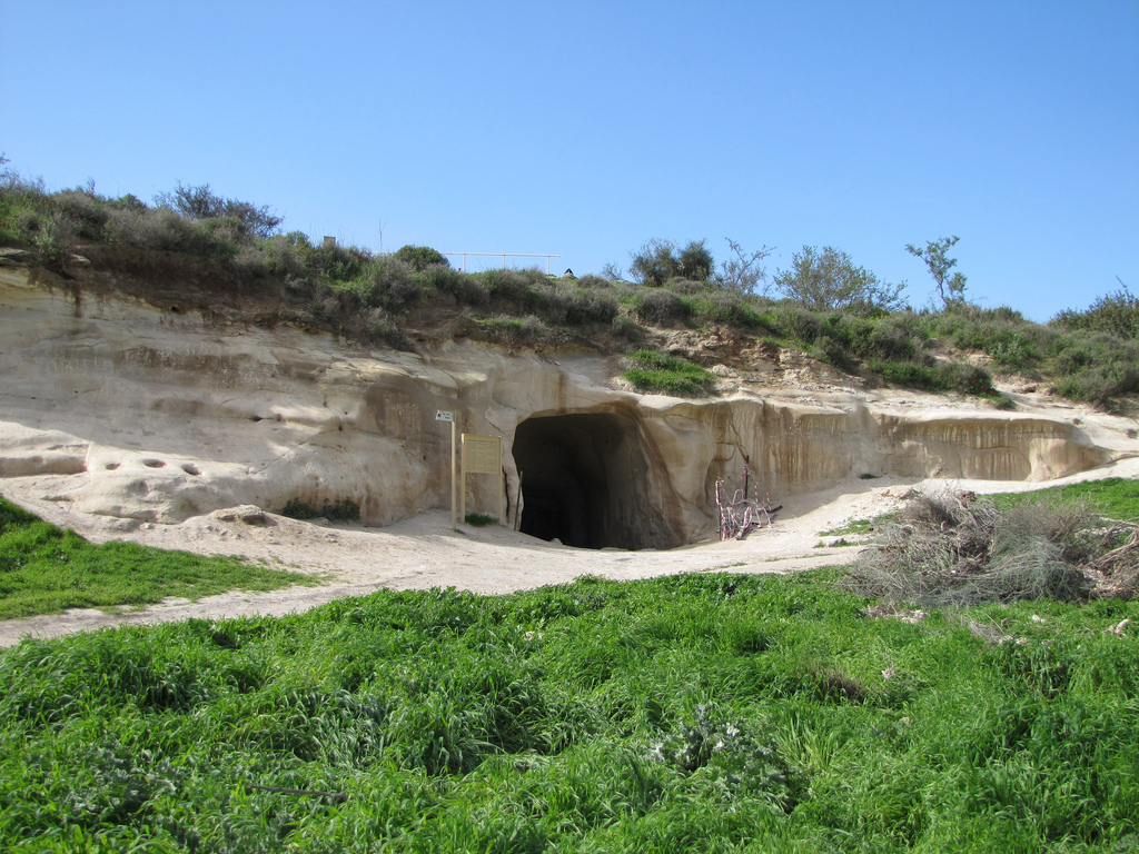 Colombarium cave in Hirbat Midras, Archeological sites of Israel